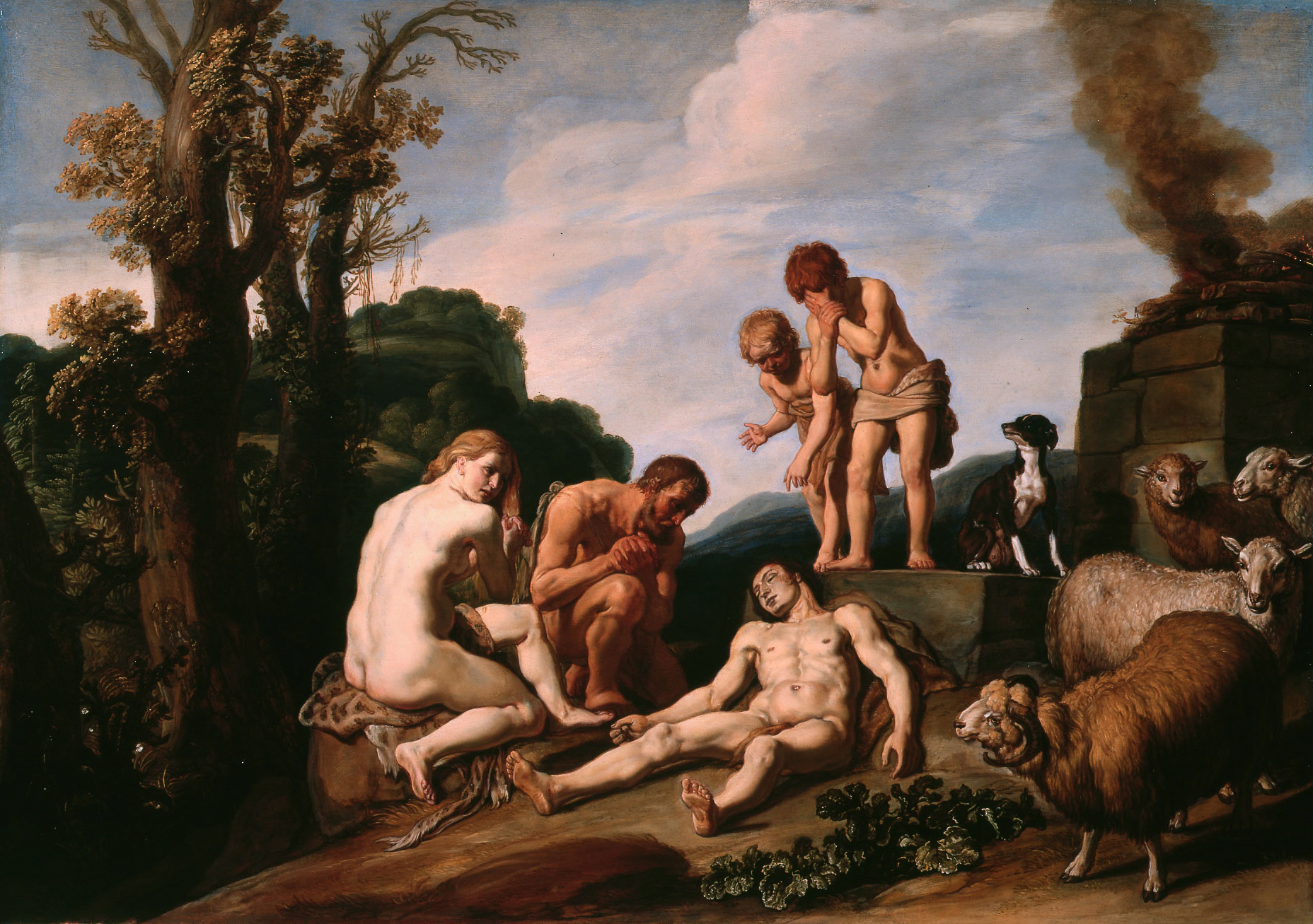 The Lamentation of Abel oil on panel 68 x 94 cm signed c.r.: PLastman fe 1624